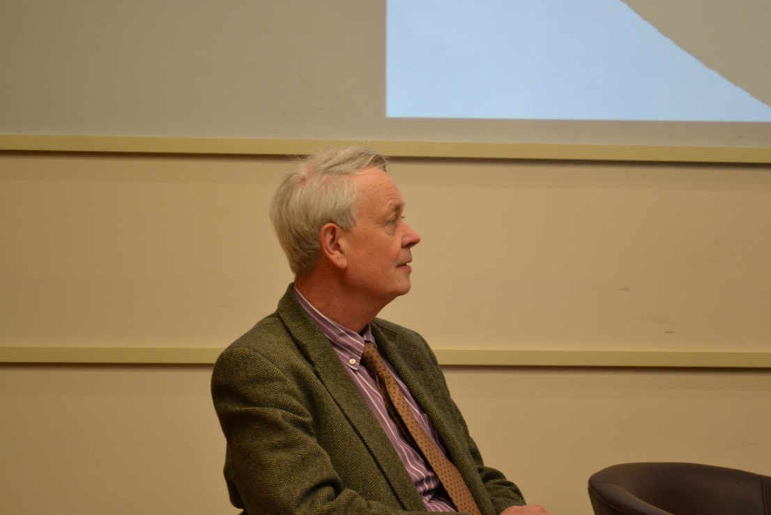 Professor James Binney at the 1st Ockham Debate, held at the T.S.Eliot Lecture Theatre, Merton College, on 13 May 2013.